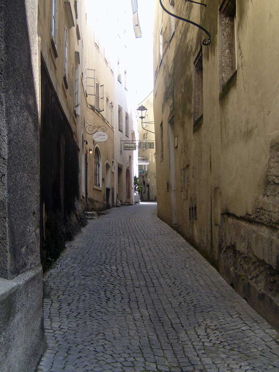 Steingasse in Salzburg, facing South